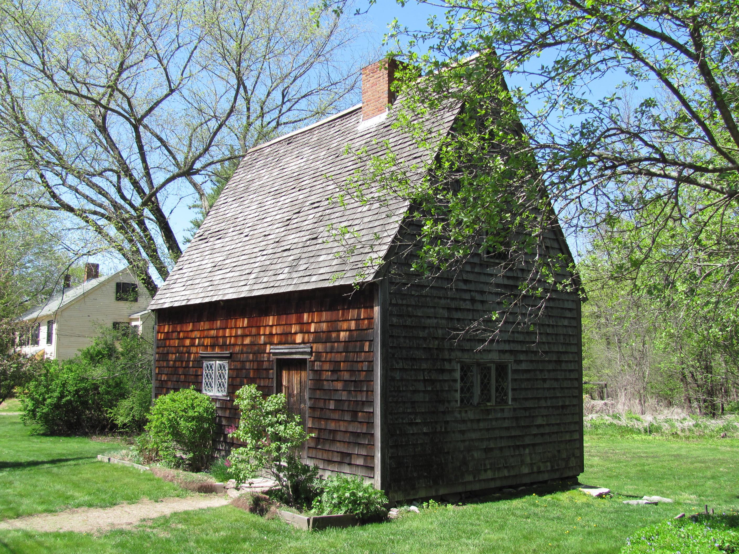 Peak House, Medfield Massachusetts